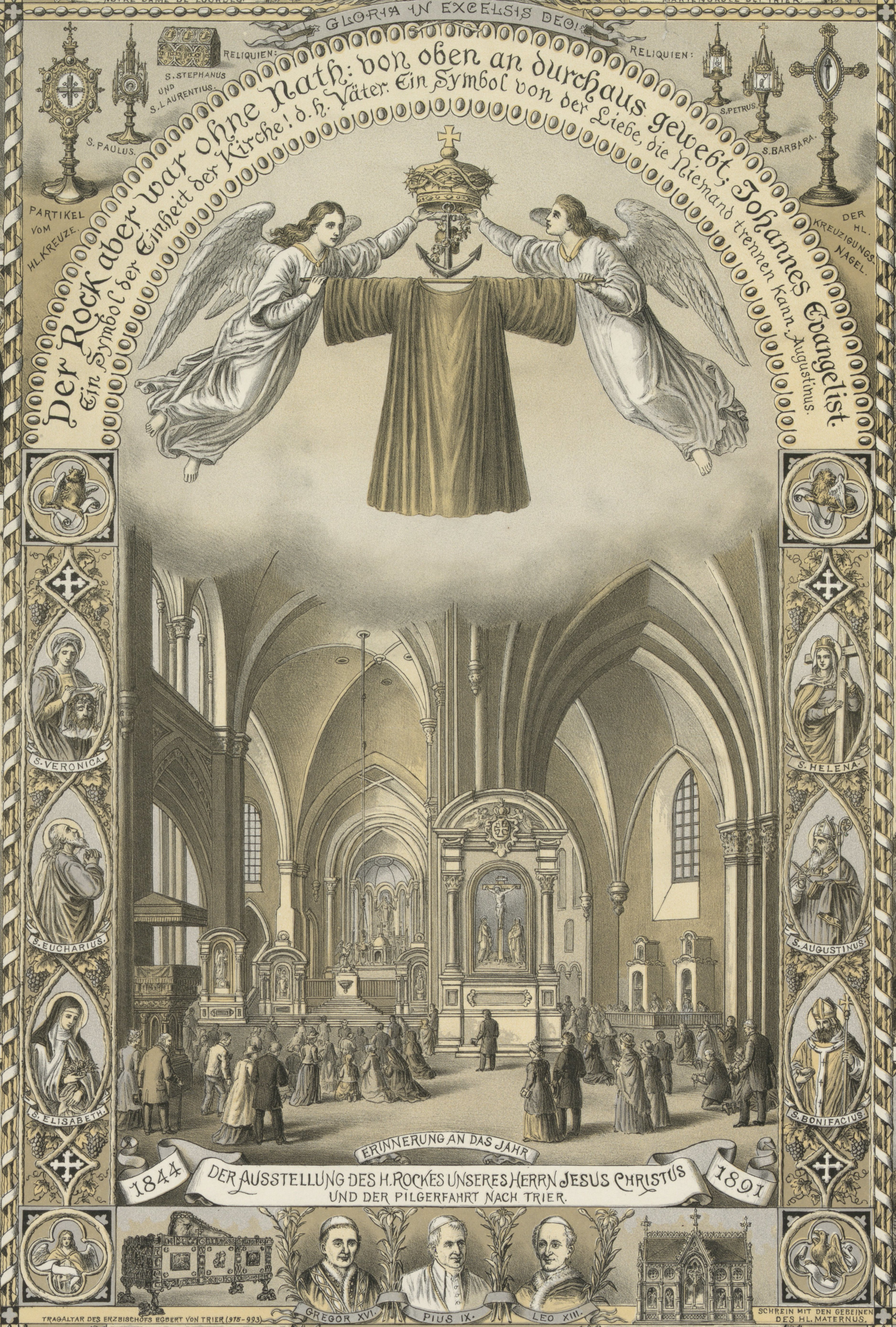 Detail of a card remembering the exhibition of the Seamless robe of Jesus in Trier (Germany) of 1844 and 1891.